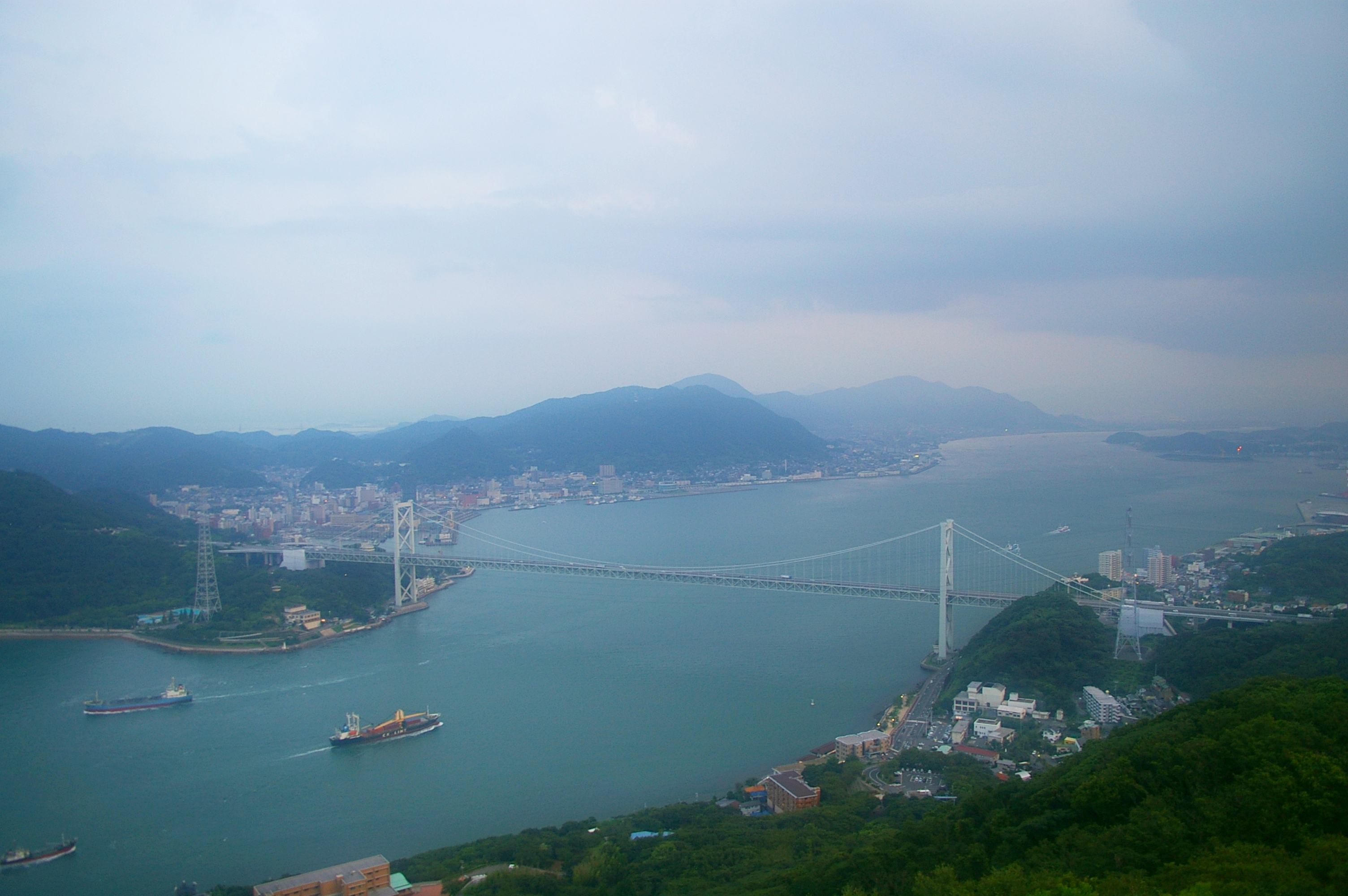 the Kanmon Channel(day)